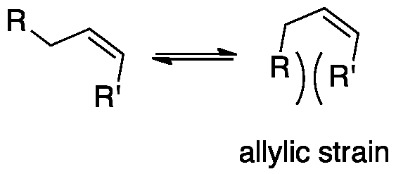 Allylic strain in an olefin.